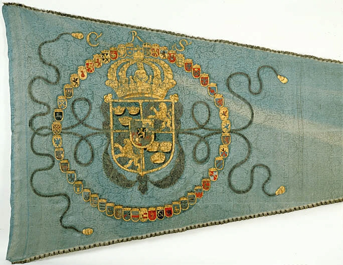 The Swedish Royal Standard of 1675, used at the coronation of King Charles XI.